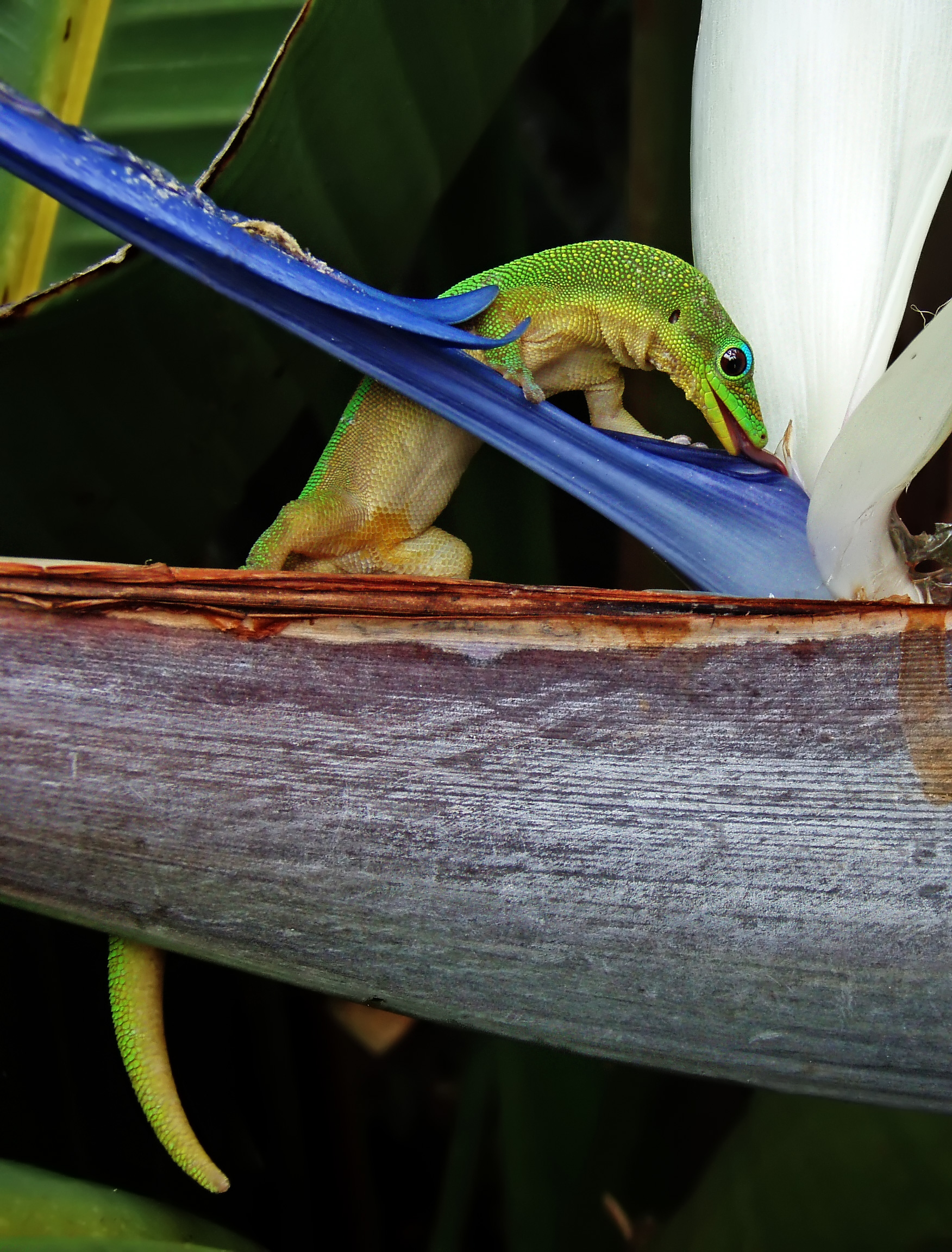 Gold dust day gecko is licking nectar from Bird of Paradise flower.The image was taken in Kona,the Big Island of Hawaii.